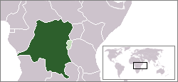 Belgian Congo (dark green) depicted within Belgian colonial empire (light green)